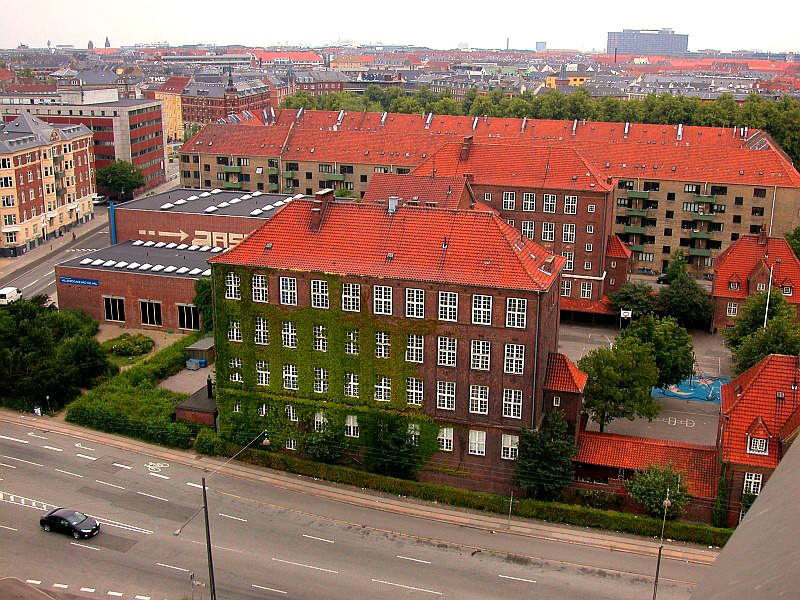 Lundtoftegade in Copenhagen, Denmark